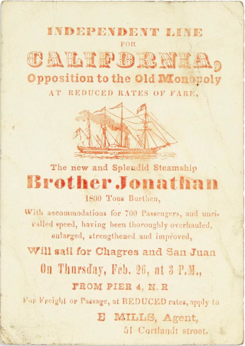 BROTHER JONATHAN sailing card. 1800 tons burthen